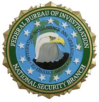 Seal of the Federal Bureau of Investigation National Security Branch